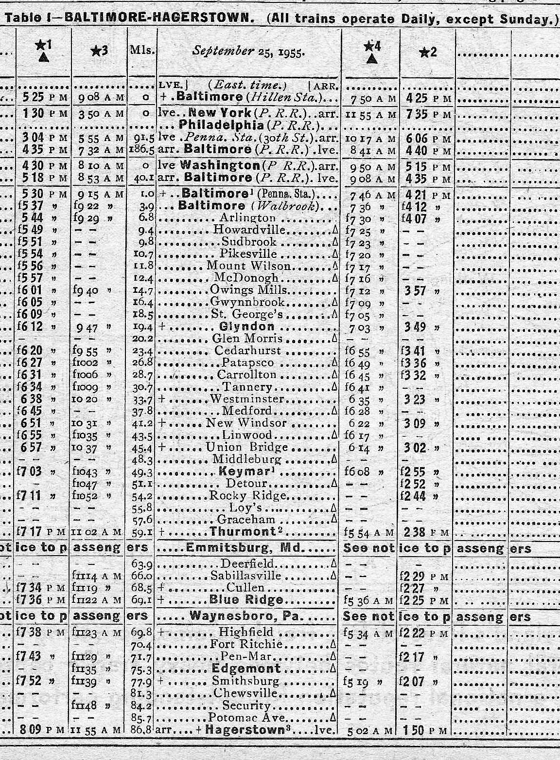 Passenger train schedule of the Western Maryland Railway between Baltimore and Hagerstown, Maryland